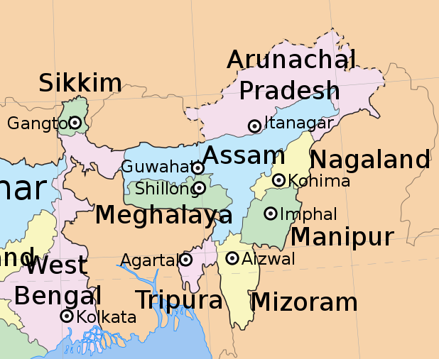 Cropped version